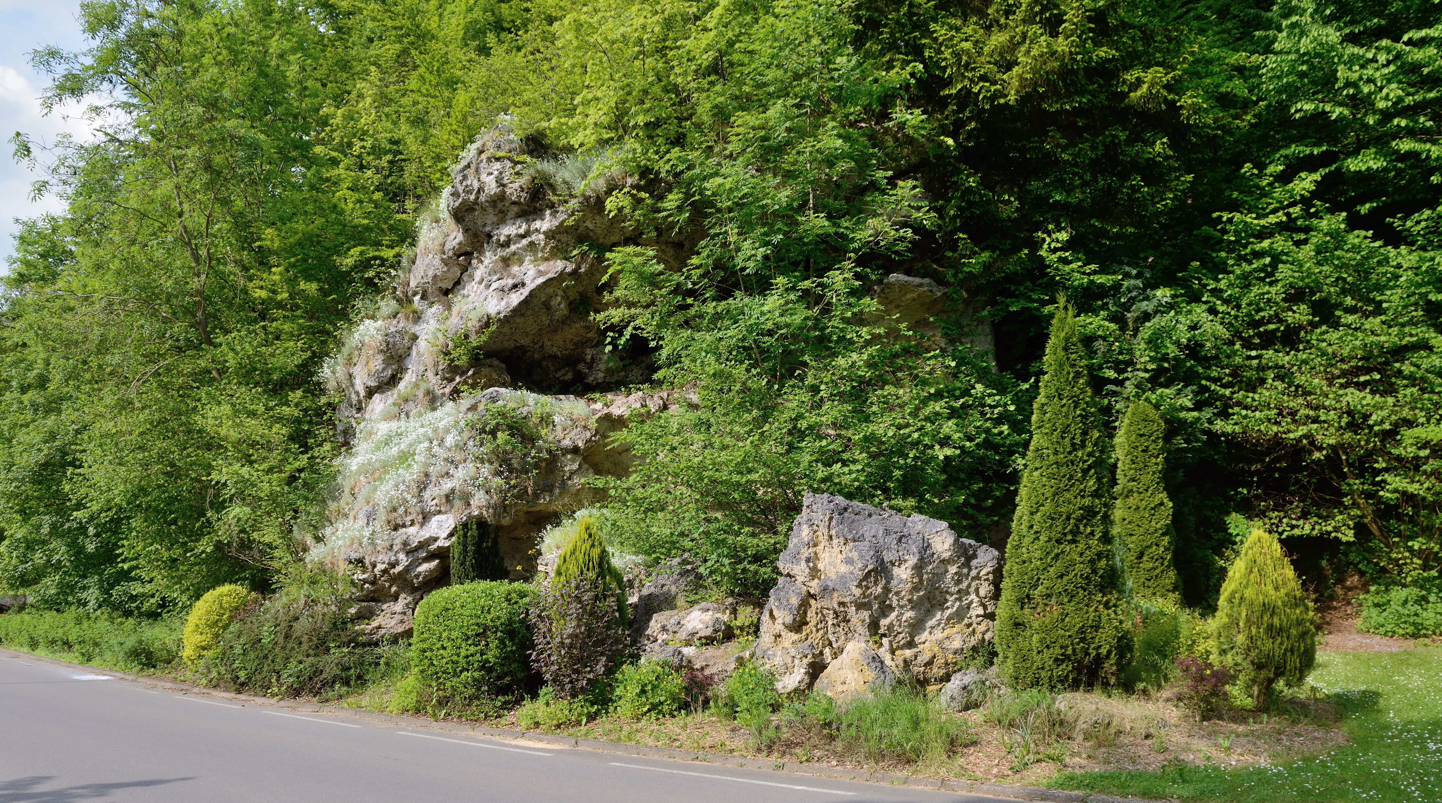 Lasauvage, Luxembourg: the rock called 'pierre de Cron'. The rock consists of calcareous tufa.